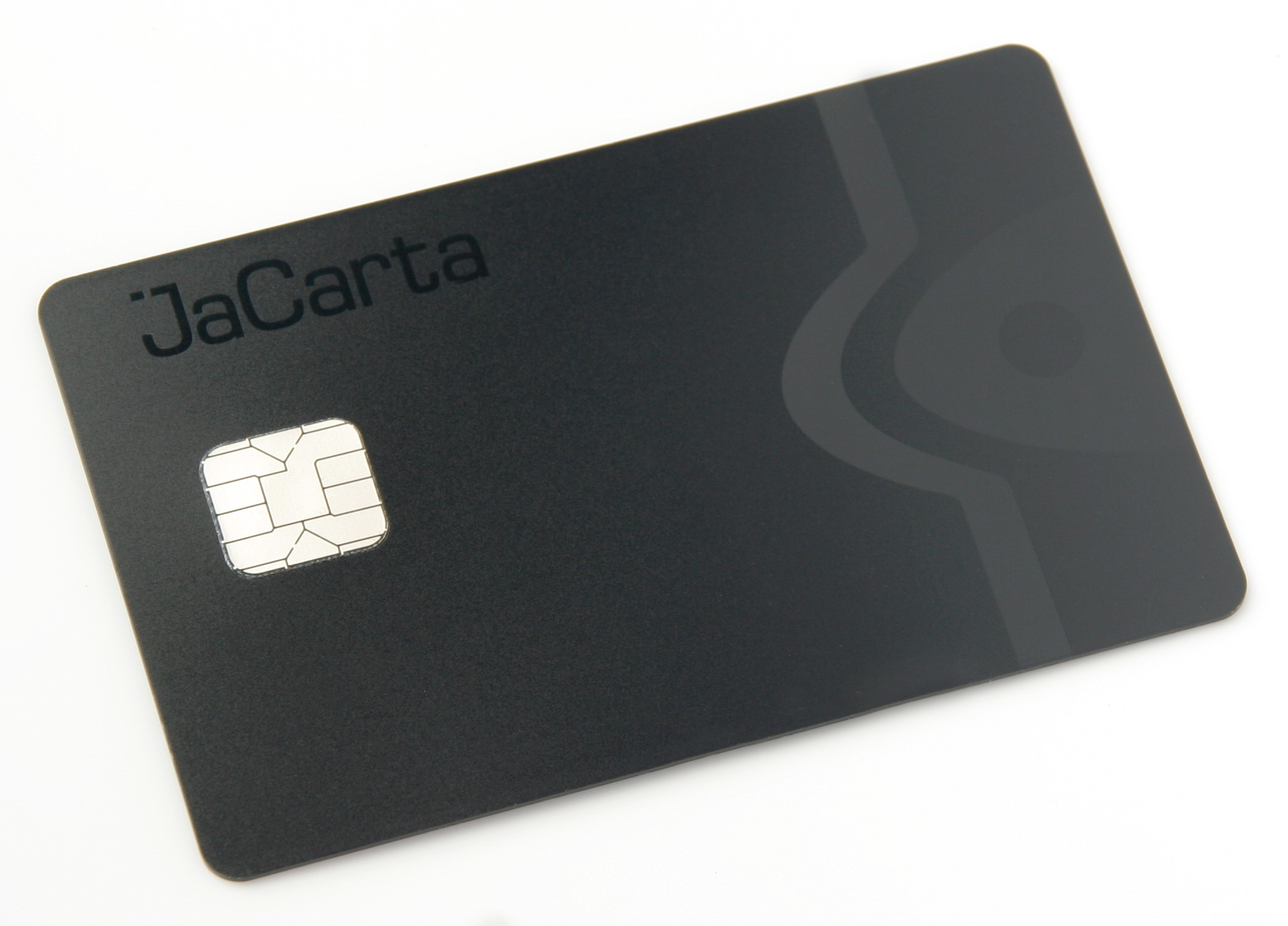 JaCarta smart card based on Java Card technology